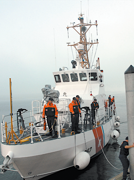 USCGC Sea Dragon, shortly after her arrival at her base in King's Bay, Georgia